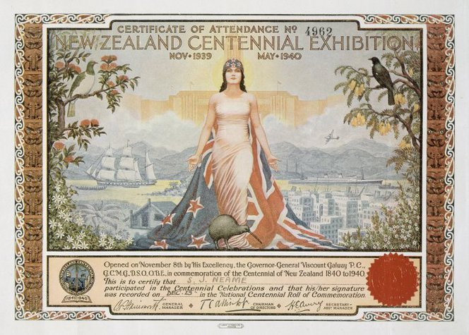 Shows female figure (Zealandia) partially draped in New Zealand flag, before a montage of New Zealand scenes including Maori whare and canoes, sailing ship and steamship in harbour, woodpigeon and tui on pohutukawa, kowhai, with clematis, manuka, and a kiwi in centre foreground. Edges are a frame of Maori carving and patterns.